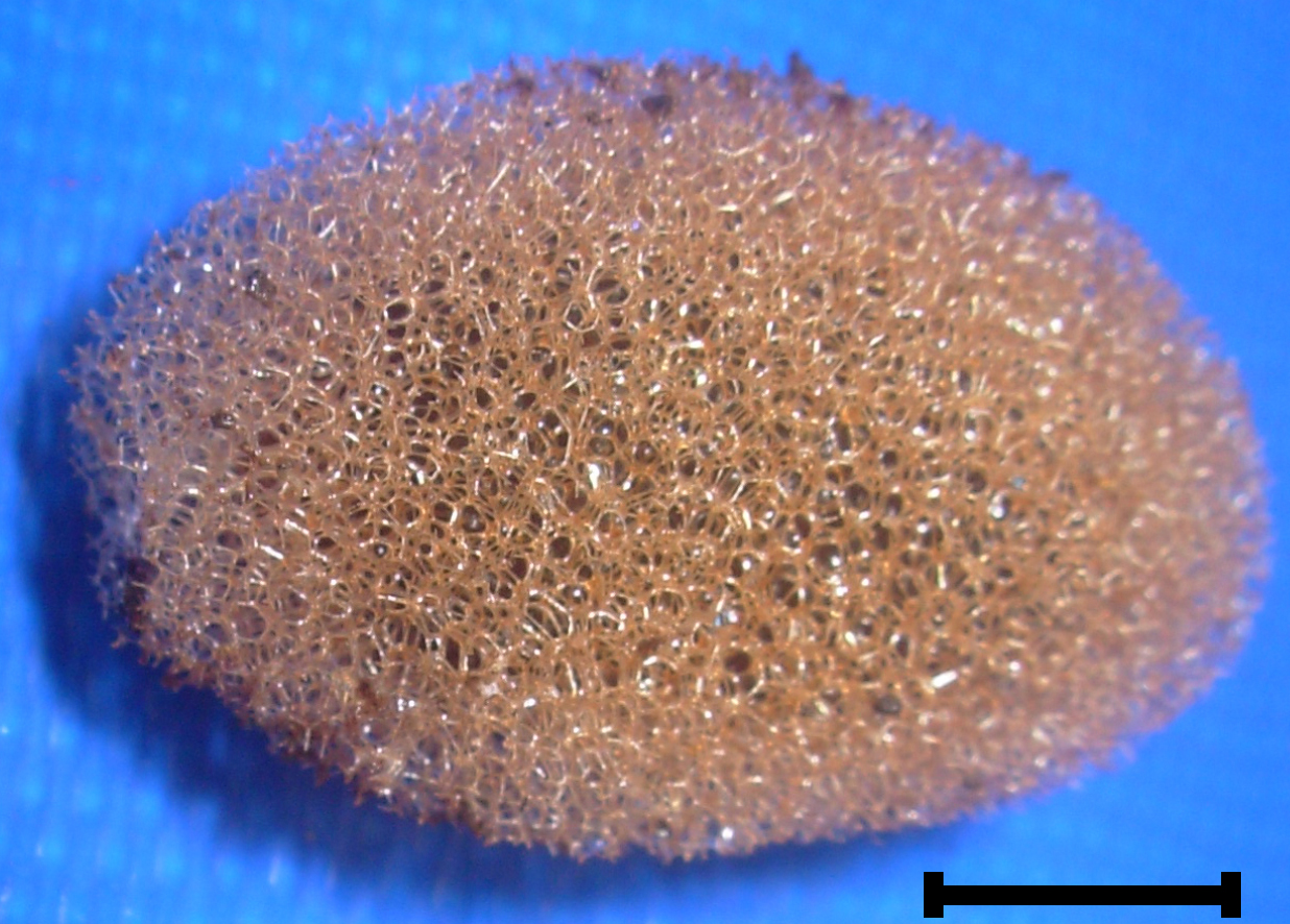 Cocoon of medicinal leech, Hirudo verbana